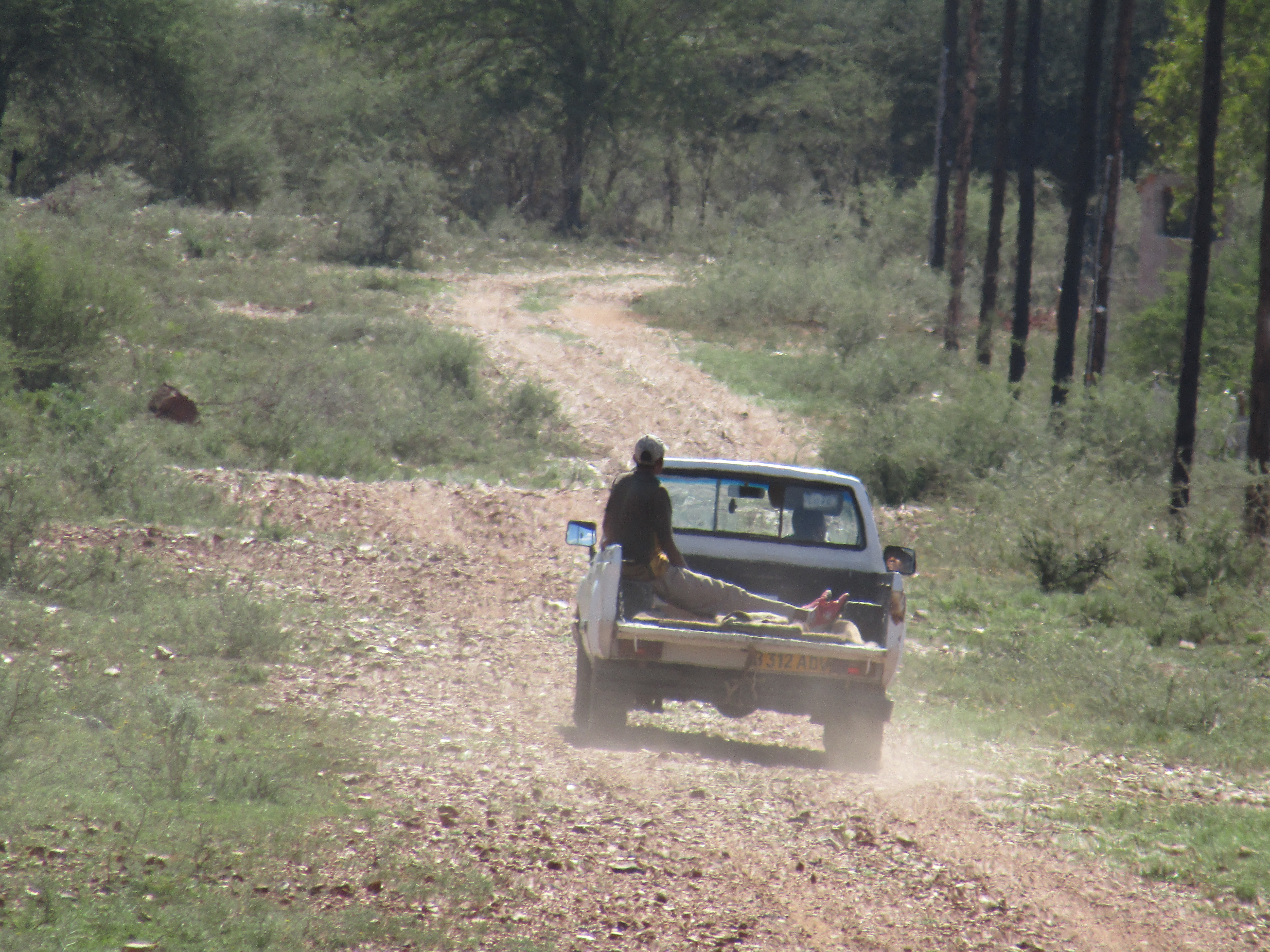 A new settlement in Ramotswa. Gravel roads links between joints. Lifts and hiking are is the way of life. Setswana: Mo ditsheng tse di sha tsa Ramotswa. Ha go na tsela ya sekontere, ke ditsela tsa makgabana hela. This is an image with the theme "Africa on the Move or Transport" from: Botswana